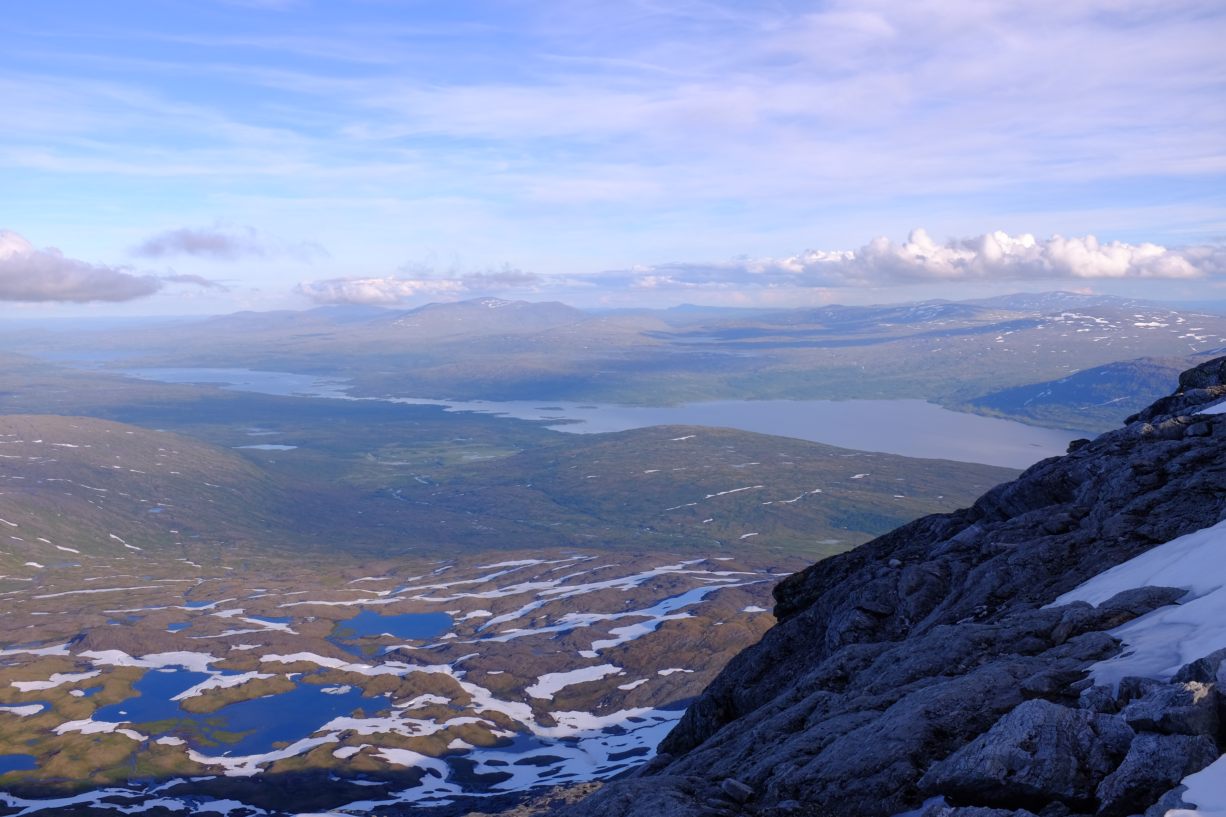 Mávasjávrre lake in Arjeplog municipality in Swedish Lapland. The lake is located near the border between Norway, between the mountains Nordre Saulo and Årjep Sávllo.